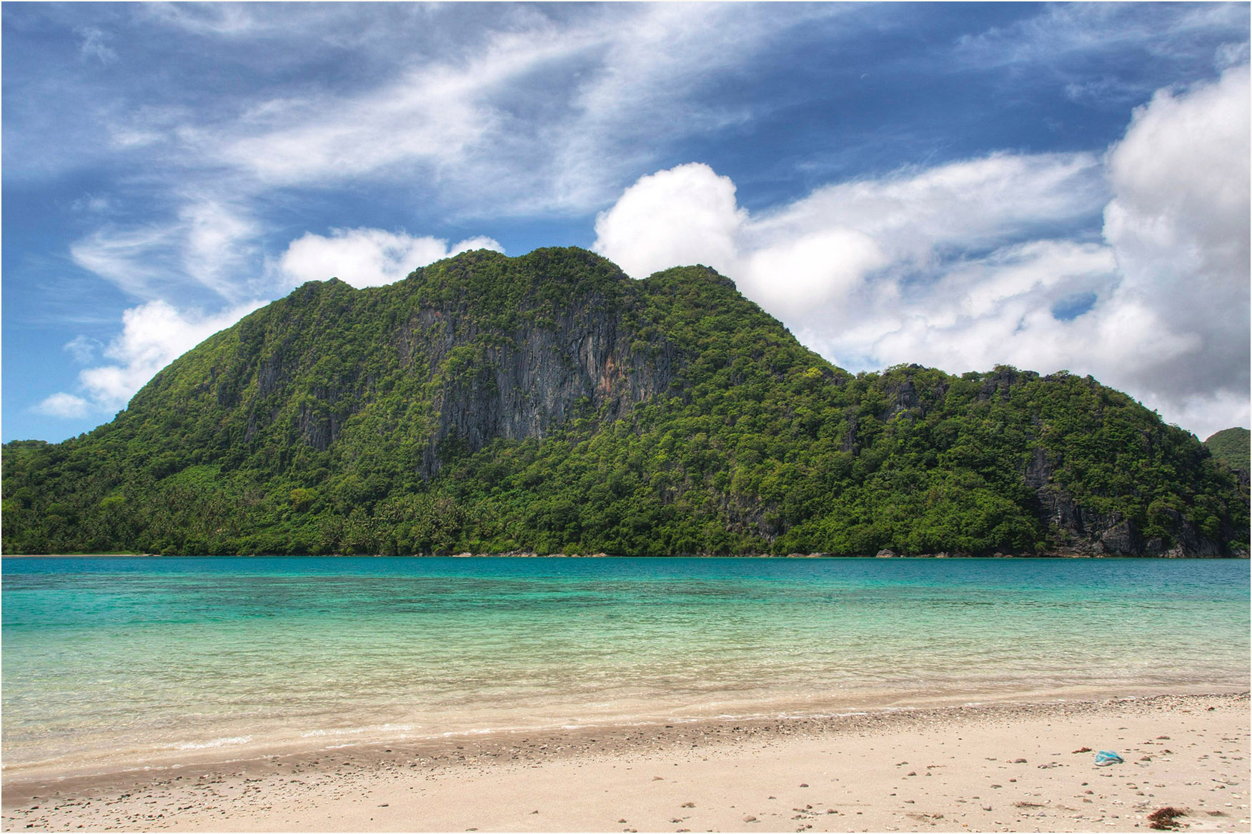 Survivors ready... go! Locations of Survivor Philippines/Caramoan challenges